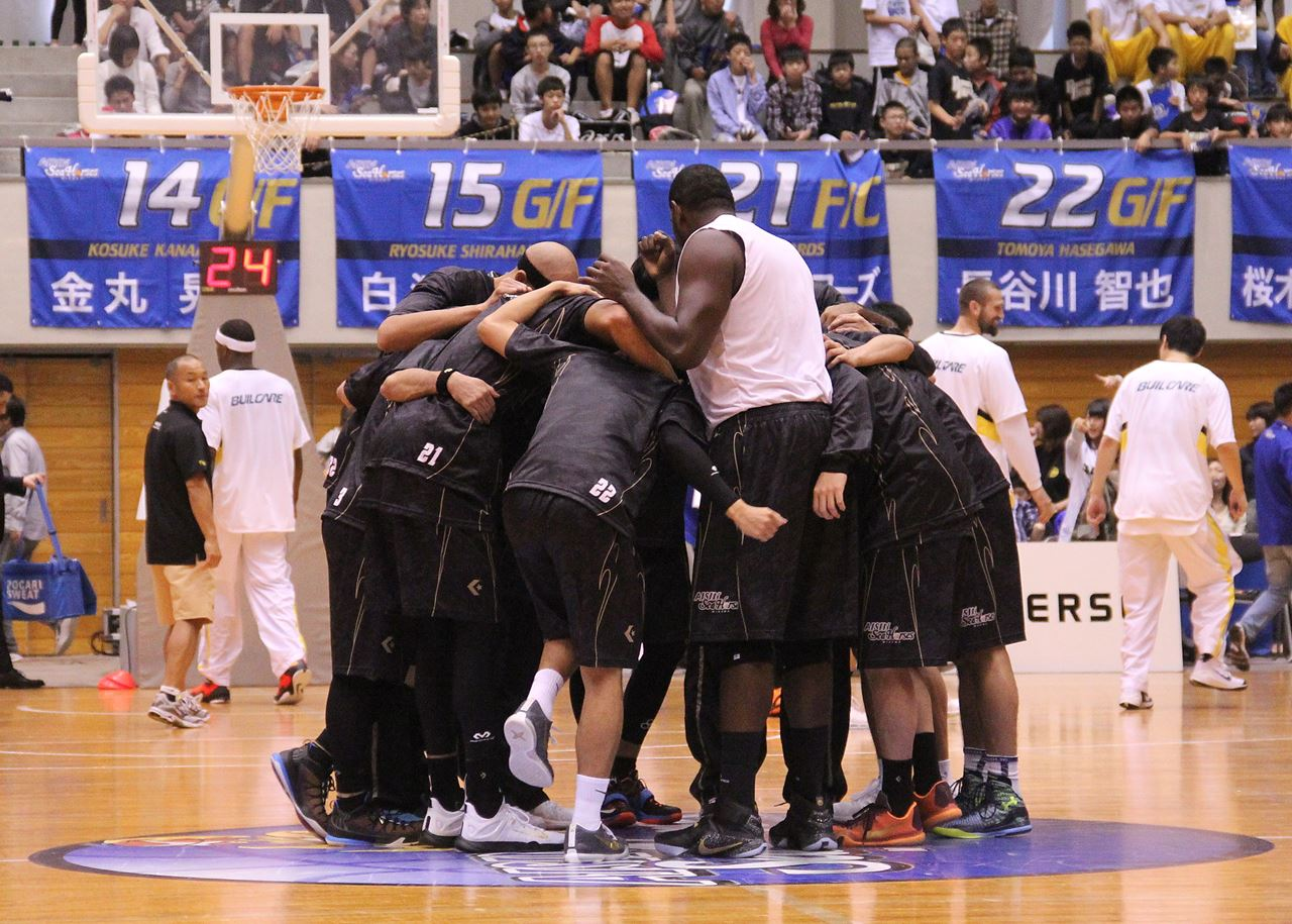 SeaHorses Mkawa